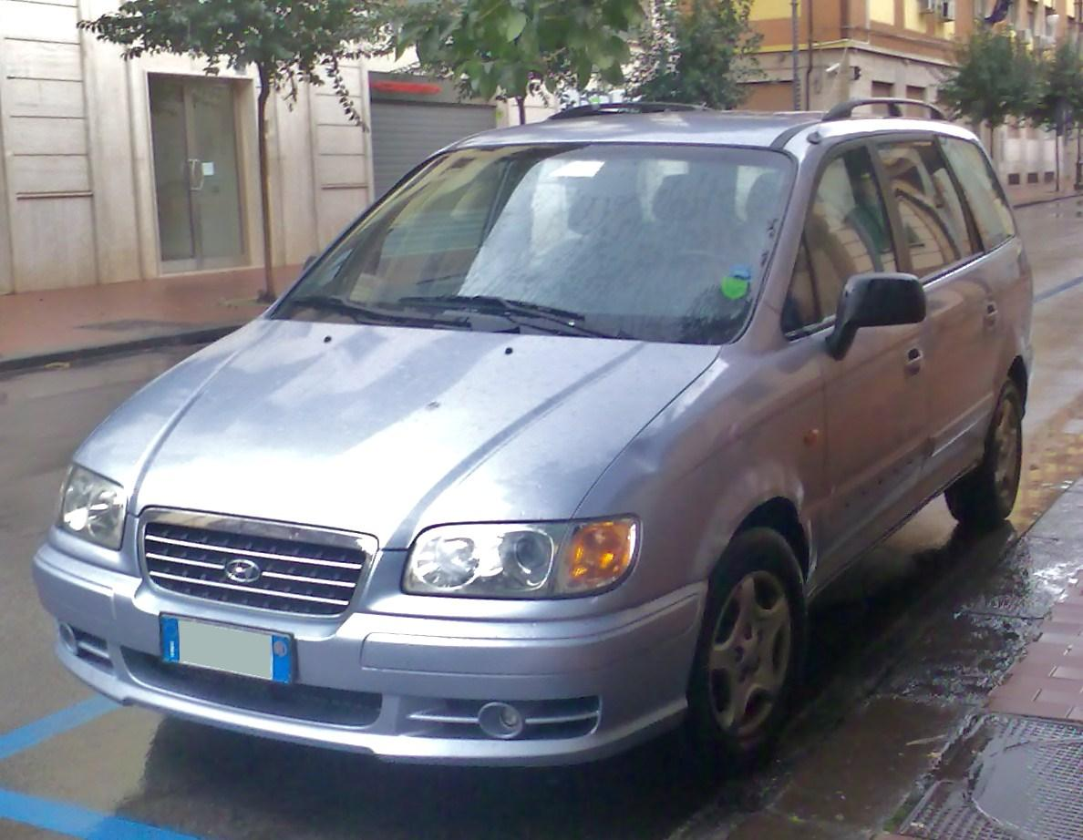 Hyundai Trajet